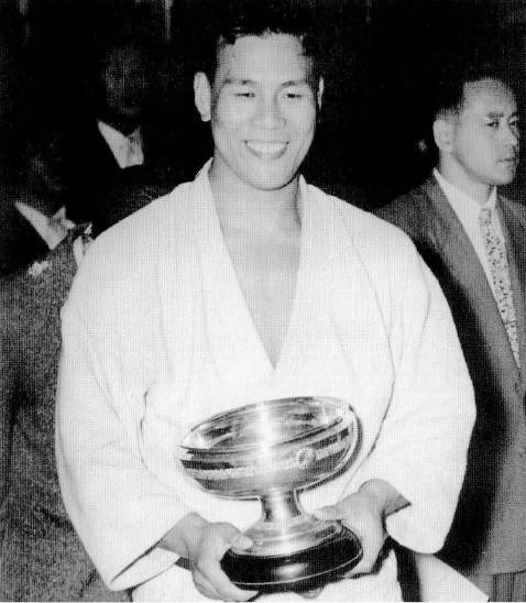 A Japanese judoka, Toshirō Daigo, after winning the All-Japan Judo Championships in 1954.